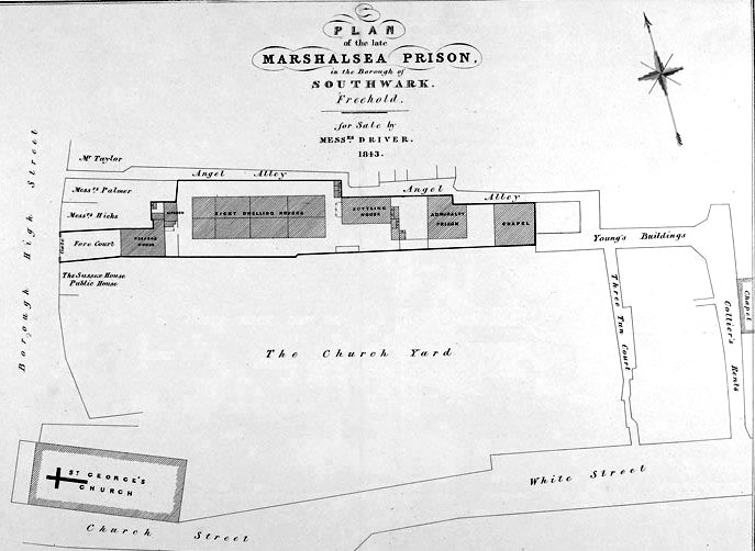 Plan of the second Marshalsea prison, London. The map is dated 1843. The accompanying text says, "This plan was produced in 1842 when the prison was finally closed and the land sold privately by Messrs Driver. One of the most important prisons in the capital under Elizabeth I, Marshalsea was used mainly for debtors."